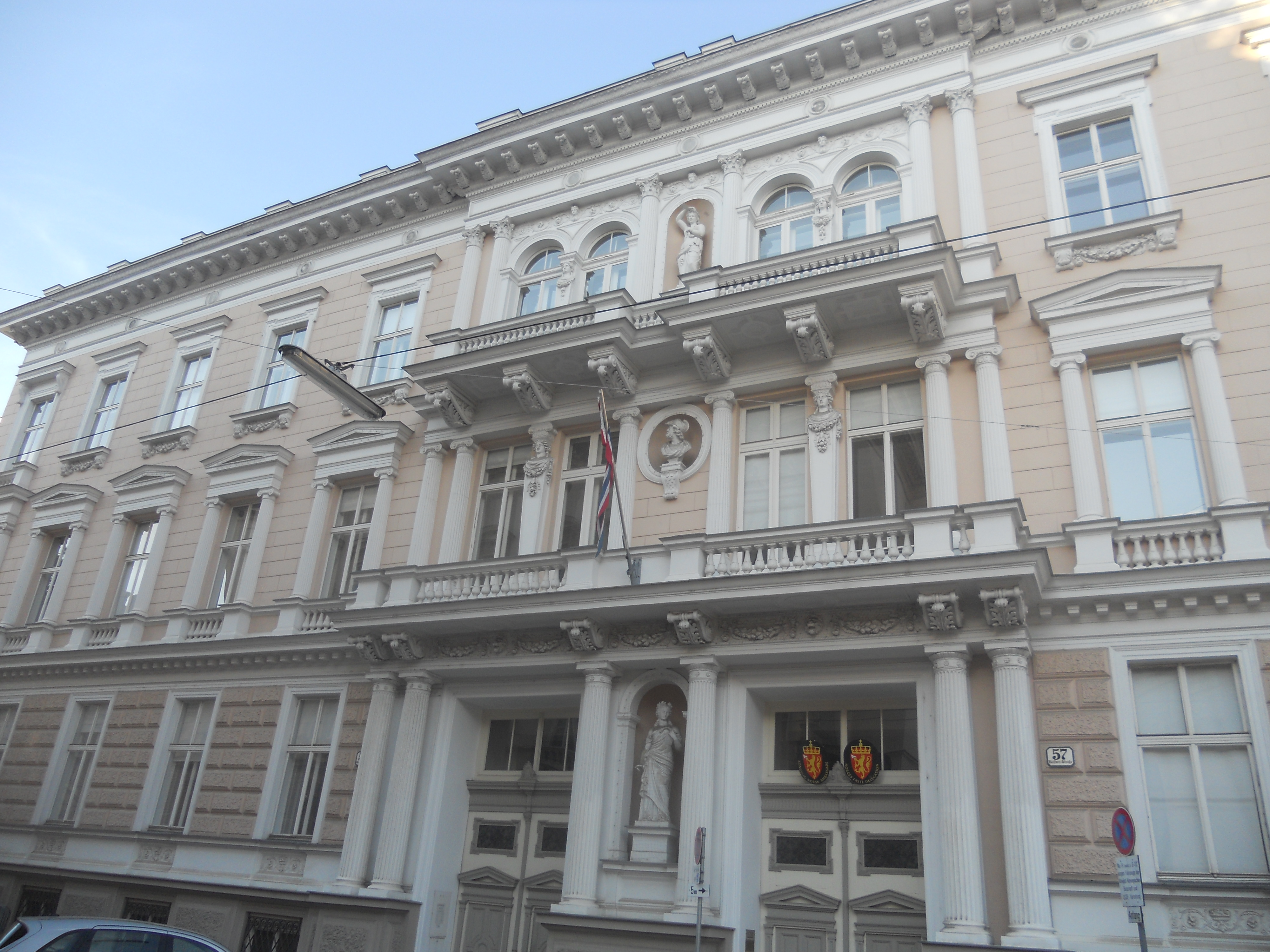 The Norwegian Embassy in Vienna, former Palais Hohenberg